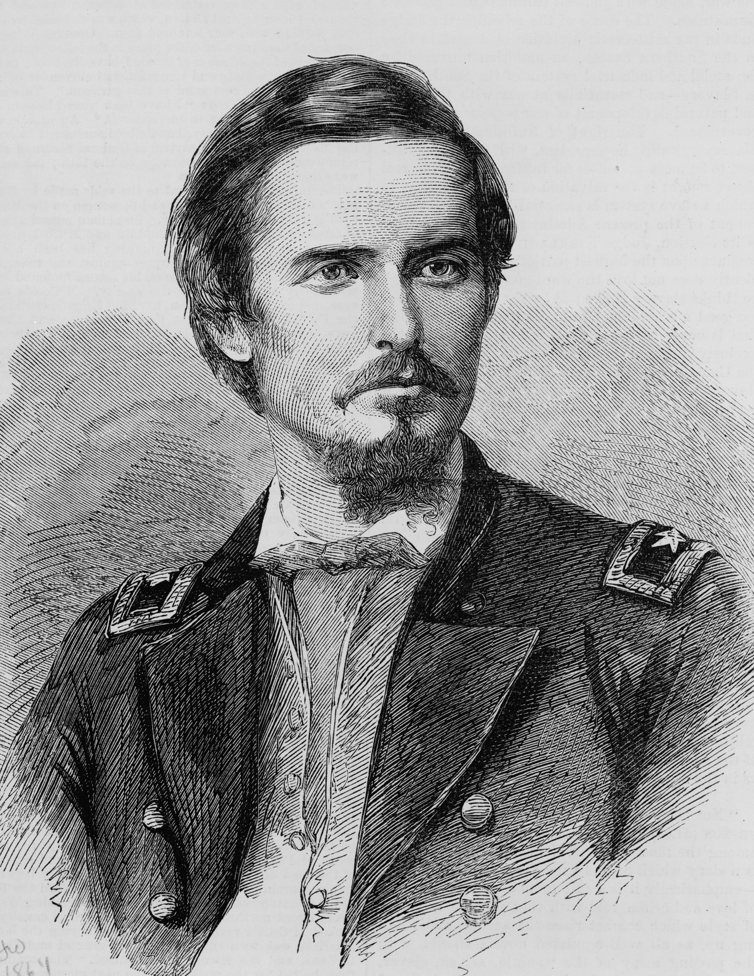 The late Brigadier-General Daniel M'Cook / photographed by Hoag & Quick, Cincinnati, O.